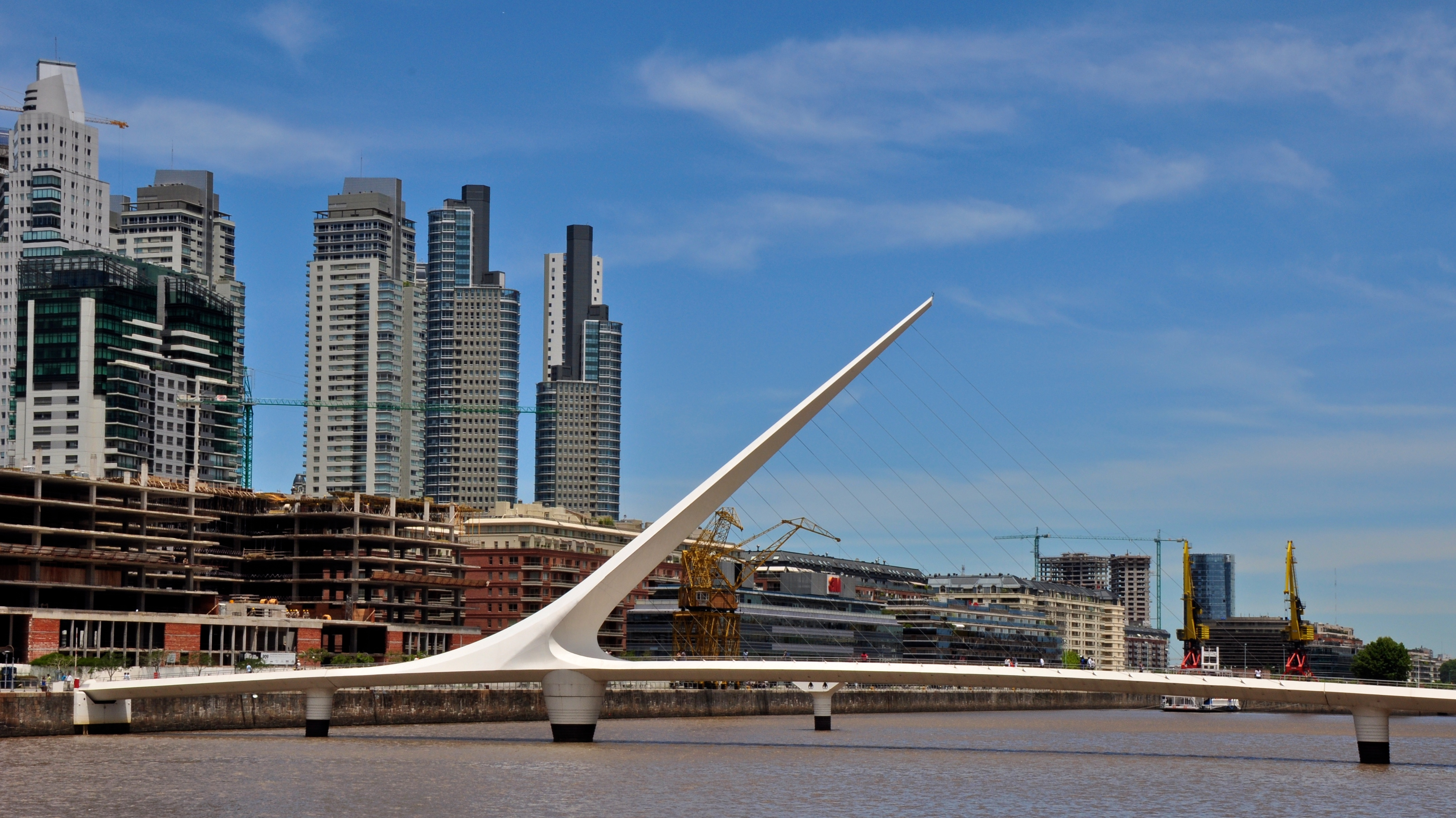 The Woman's Bridge (Santiago Calatrava, 2001), in the Puerto Madero section of Buenos Aires.